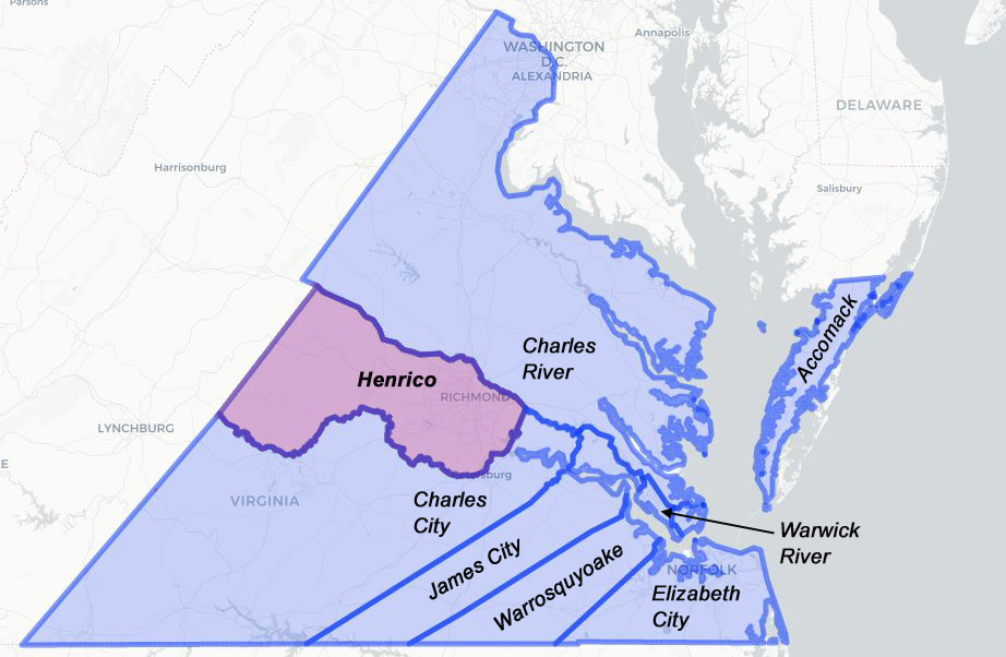 This file is a map of the first 8 shires created in Virginia in 1634. The base of this map was taken from the Newberry Library Atlas of Historical County Boundaries for Virginia 1634-12-31., and is copyrighted for commercial and non-commerical distribution (see linked page). File also includes my added coloration for Henrico, as well as addition of County names. Note: The underlying map of Virginia is contemporary map and not reflective of the settlement in 1634.